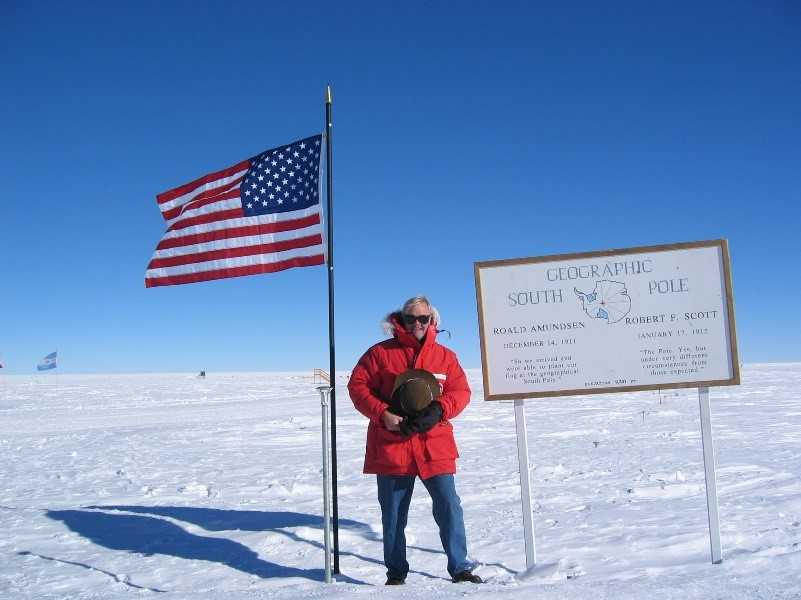 Mark H. Thiemens at South Pole